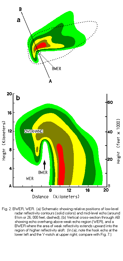 Idealized radar schematics of a bounded weak echo region (BWER), which is found in some supercell thunderstorms.